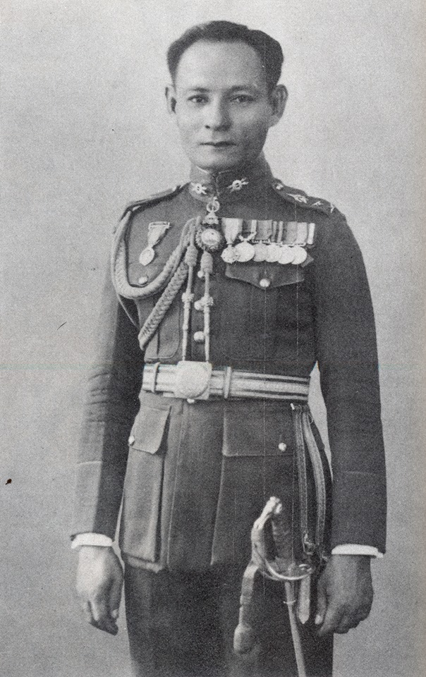 ภาพถ่ายของพลเอกจรูญรัตนกุลเสรีเริงฤทธิ์เพื่อการศึกษา